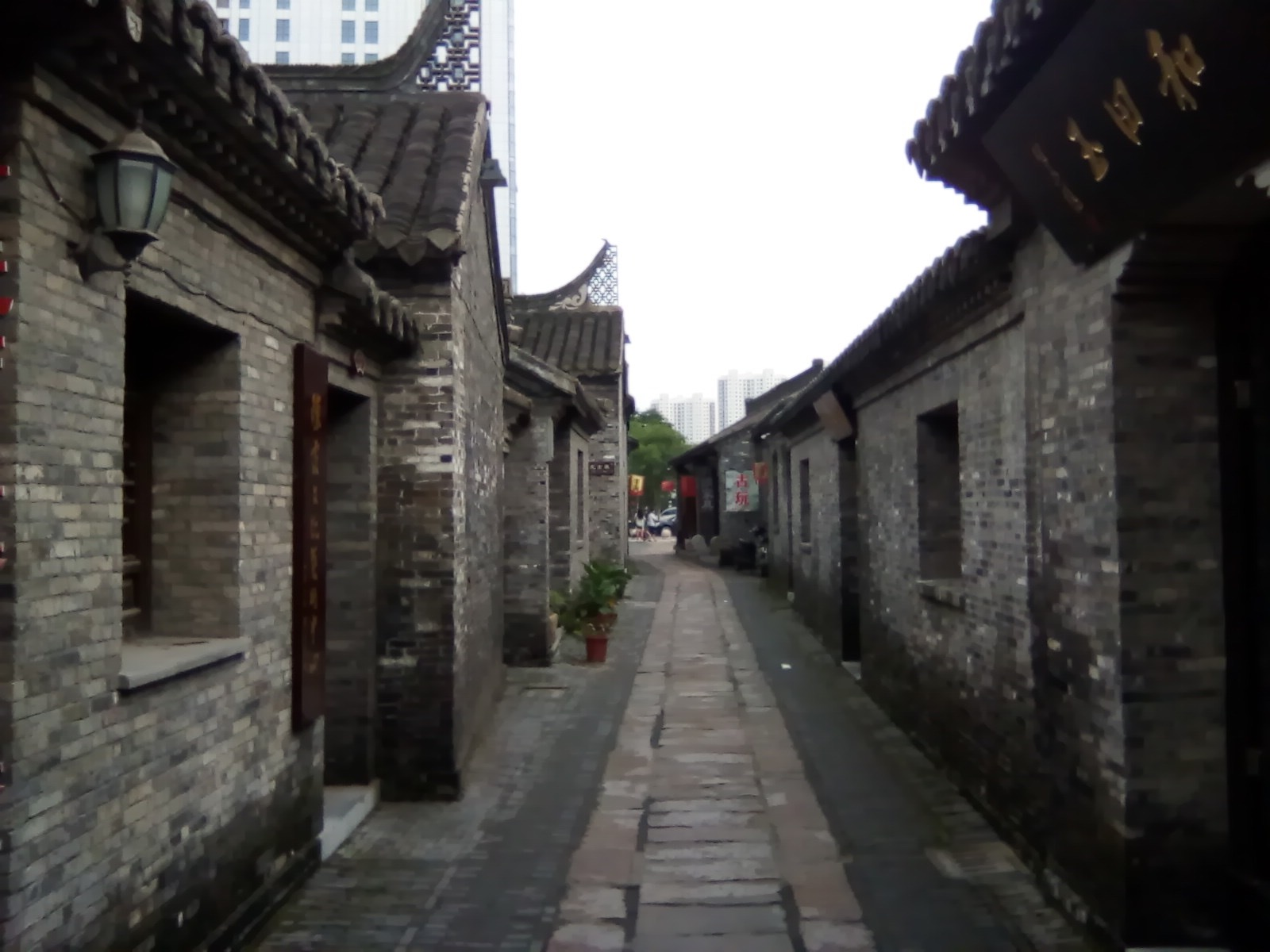 Old buildings in Jiāngyàn (姜堰), Tàizhōu, Jiāngsū, China, near the birthplace of Hu Jintao.